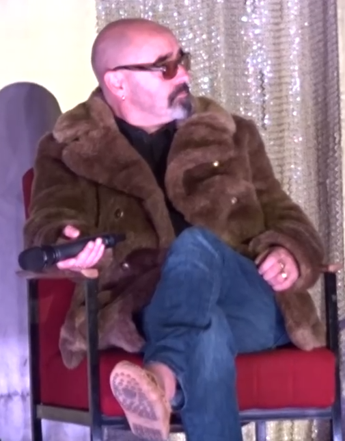 Paul Arthurs in 2016